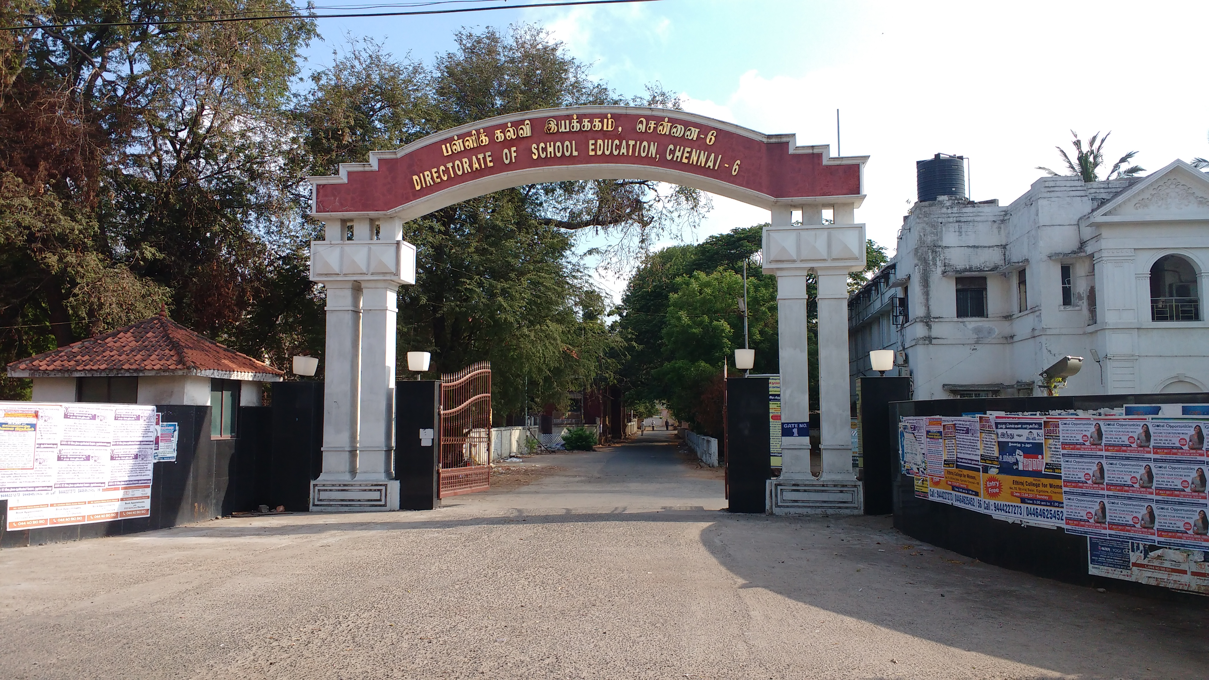 DPI Campus is situated in Nungambakkam Chennai